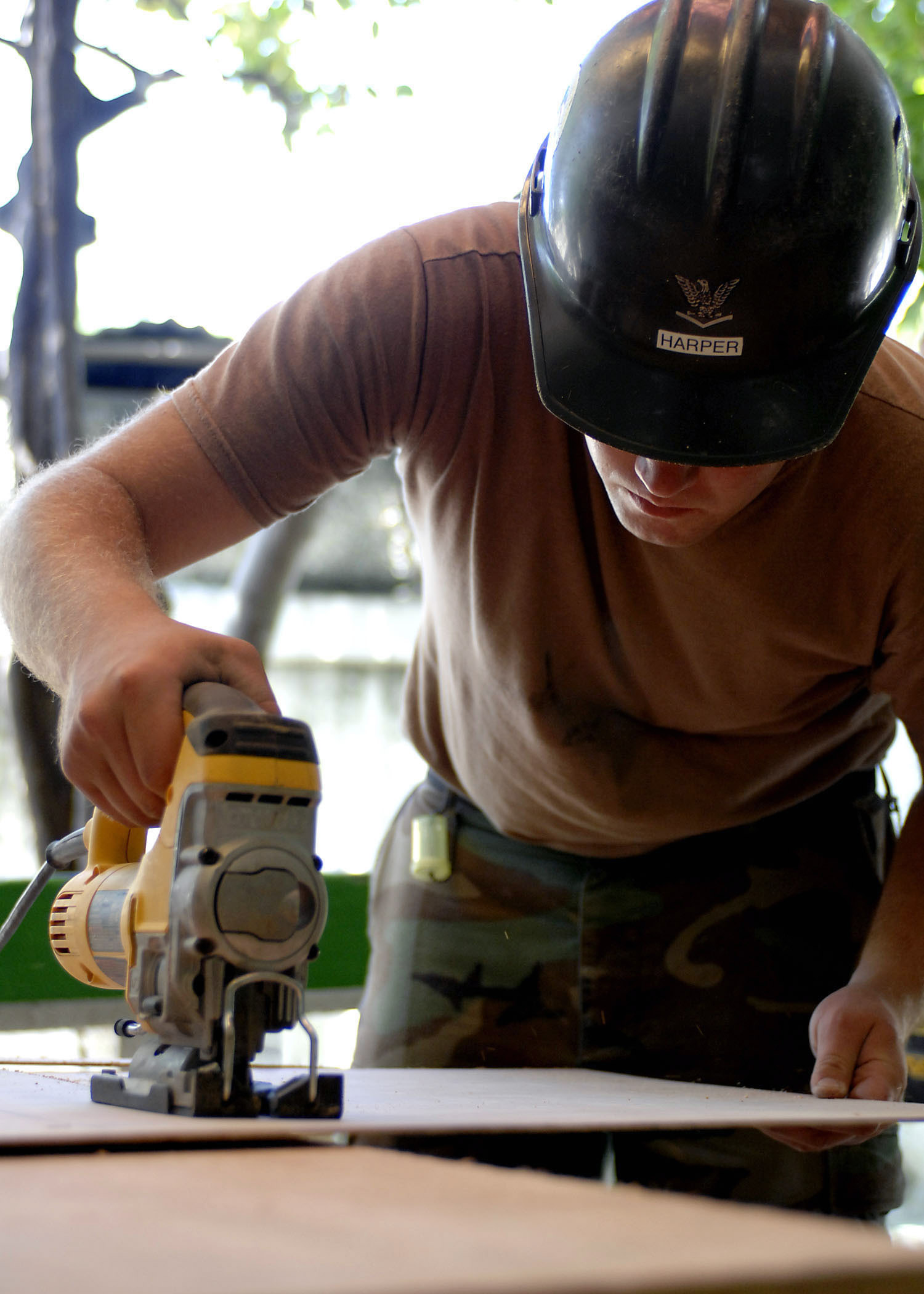 CROIX-DES-BOUQUETS, Haiti (Sept. 6, 2007) - Equipment Operator 3rd Class Nathan Harper, a Seabee assigned to Construction Battalion Maintenance Unit (CBMU) 202, saws a board to reface cabinets for a laboratory at a local health training center. CBMU-202 is attached to Military Sealift hospital ship USNS Comfort (T-AH 20). Comfort is on a four-month humanitarian deployment to Latin America and the Caribbean providing medical treatment in a dozen countries. U.S. Navy photo by Mass Communication Specialist 2nd Class Joan E. Kretschmer (RELEASED)